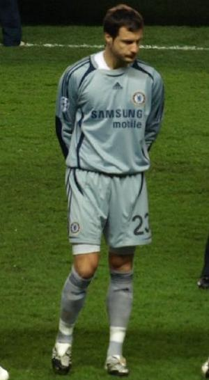 Carlo Cudicini playing for Chelsea FC in 2008